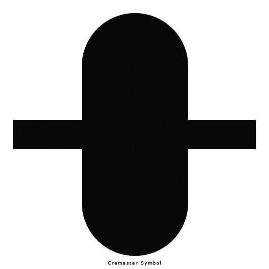 Main logo of the Cremaster Cycle